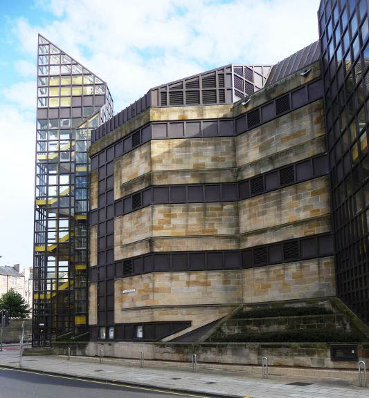 Extension building of the National Library of Scotland. Causewayside, Edinburgh.